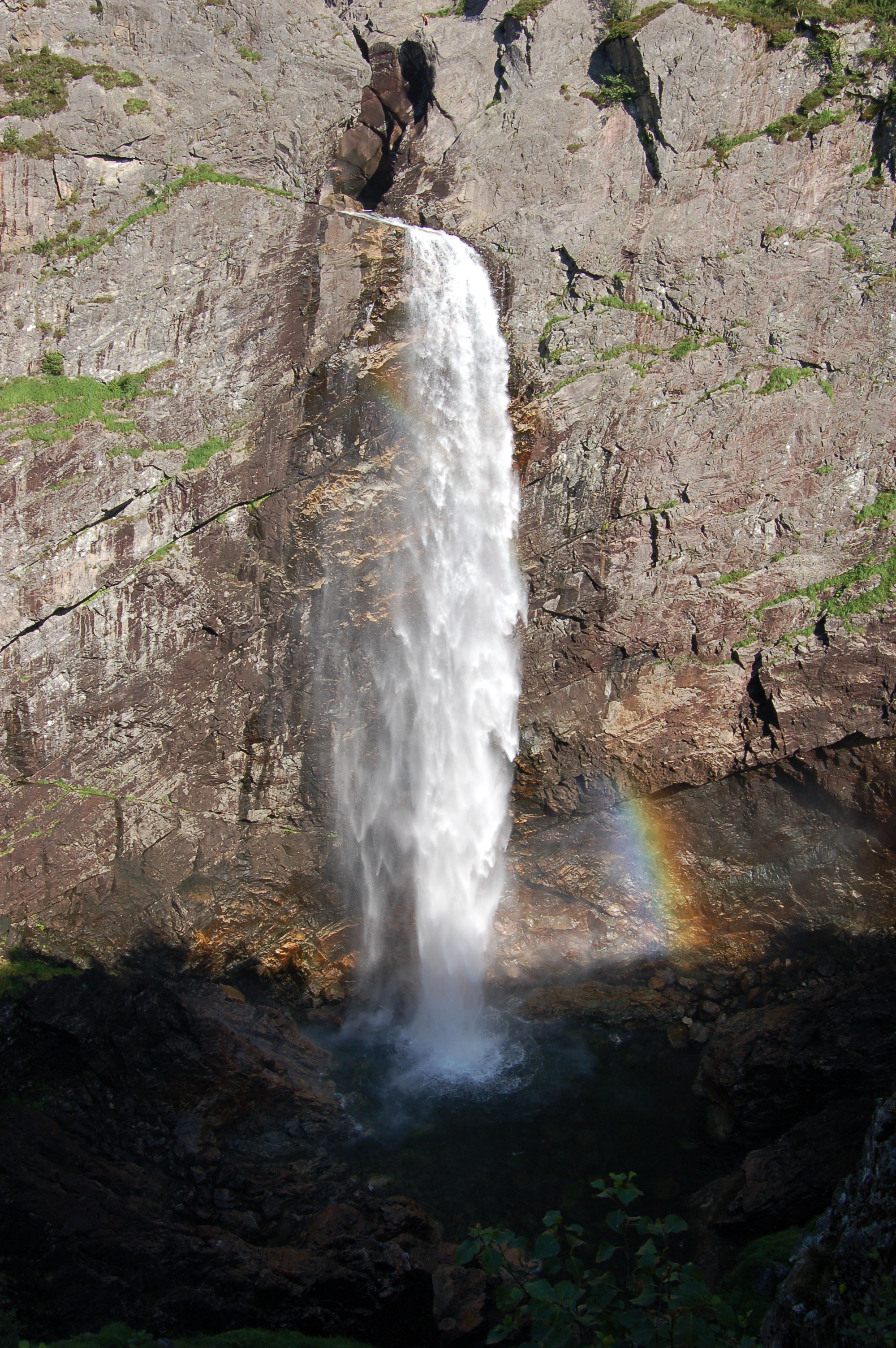 Månafossen, the highest waterfall in Rogaland